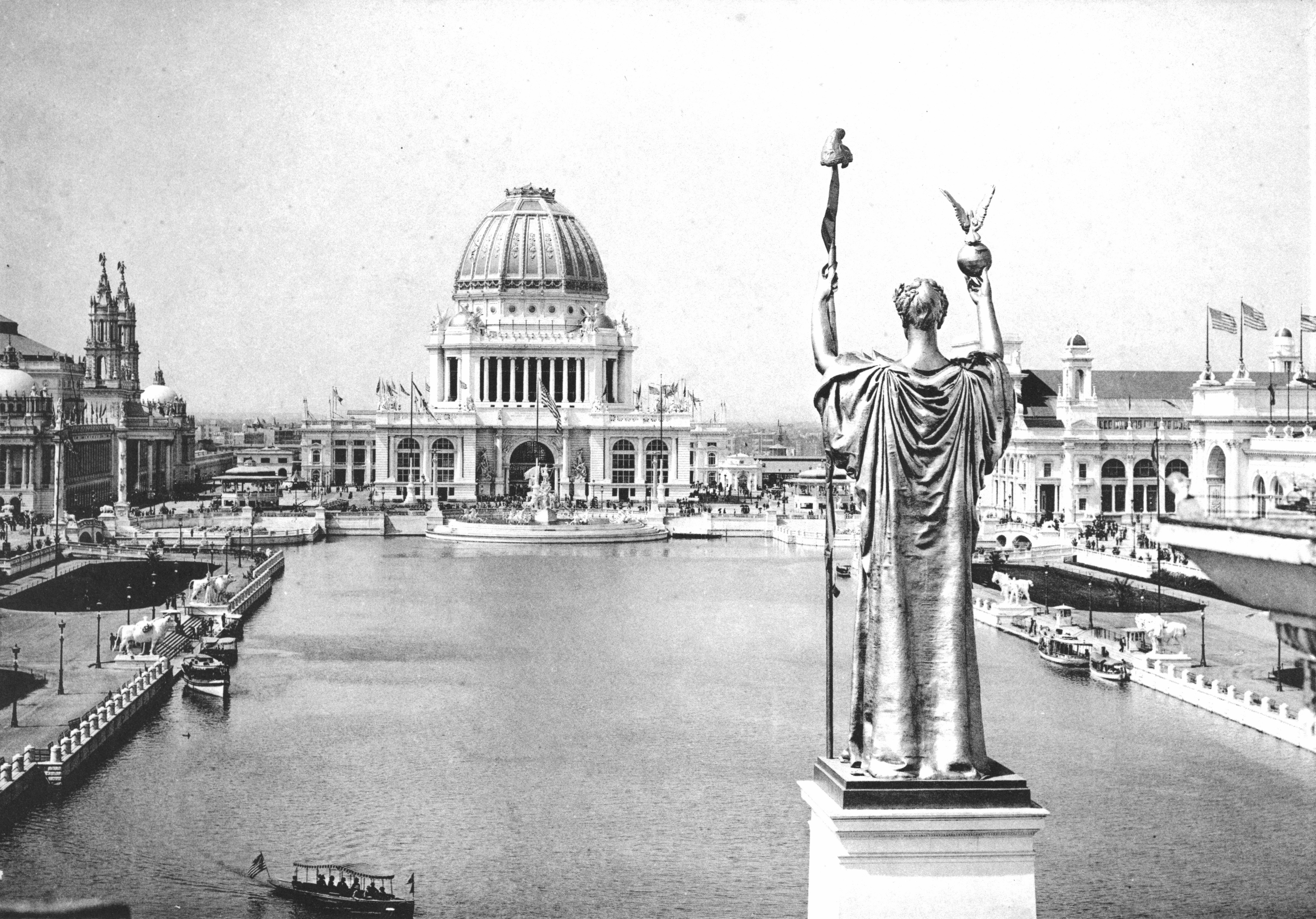 Looking West From Peristyle, Court of Honor and Grand Basin of the 1893 World's Columbian Exposition (Chicago, Illinois)